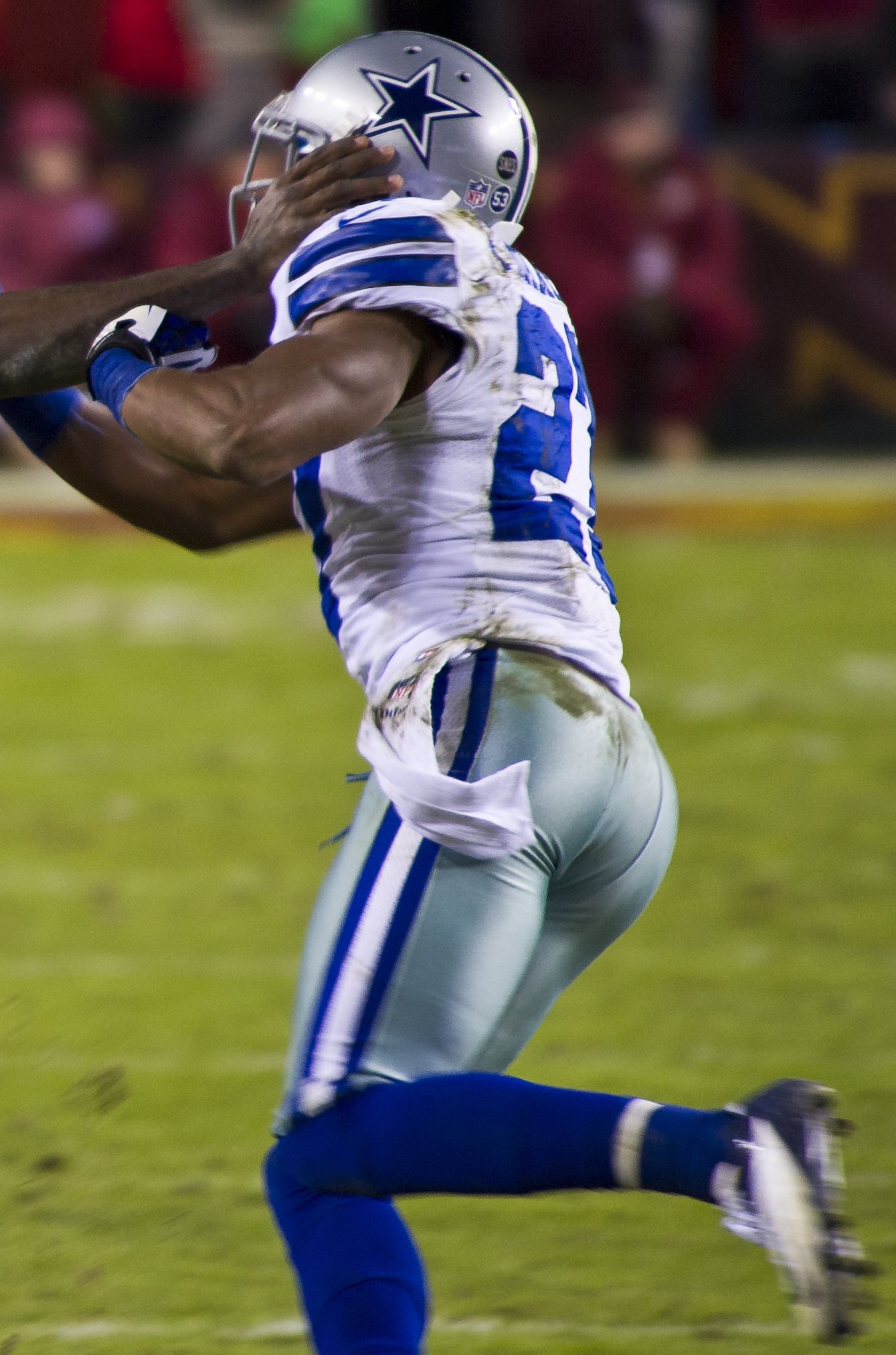 Robert Griffin III, Washington Redskins quarterback, stiff arms Dallas Cowboys safety Eric Frampton after a 17-yard run during the Washington Redskins and Dallas Cowboys game at FedEx Field in Landover, Md., Dec. 30, 2012. During a commercial break, troops were honored at the game by USAA in front of more than 82,000 fans. The Redskins won 28-18 to advance into the playoffs. (U.S. Army photo by Sgt. 1st Class Mark Burrell, Joint Public Affairs Support Element)